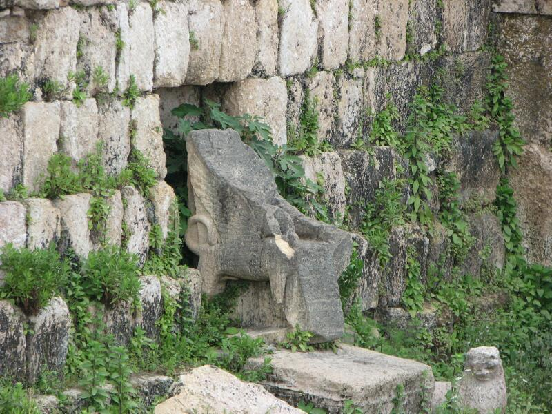 Ruins of the Phoenician temple of Eshmun which was built in the 7th BC in Sidon